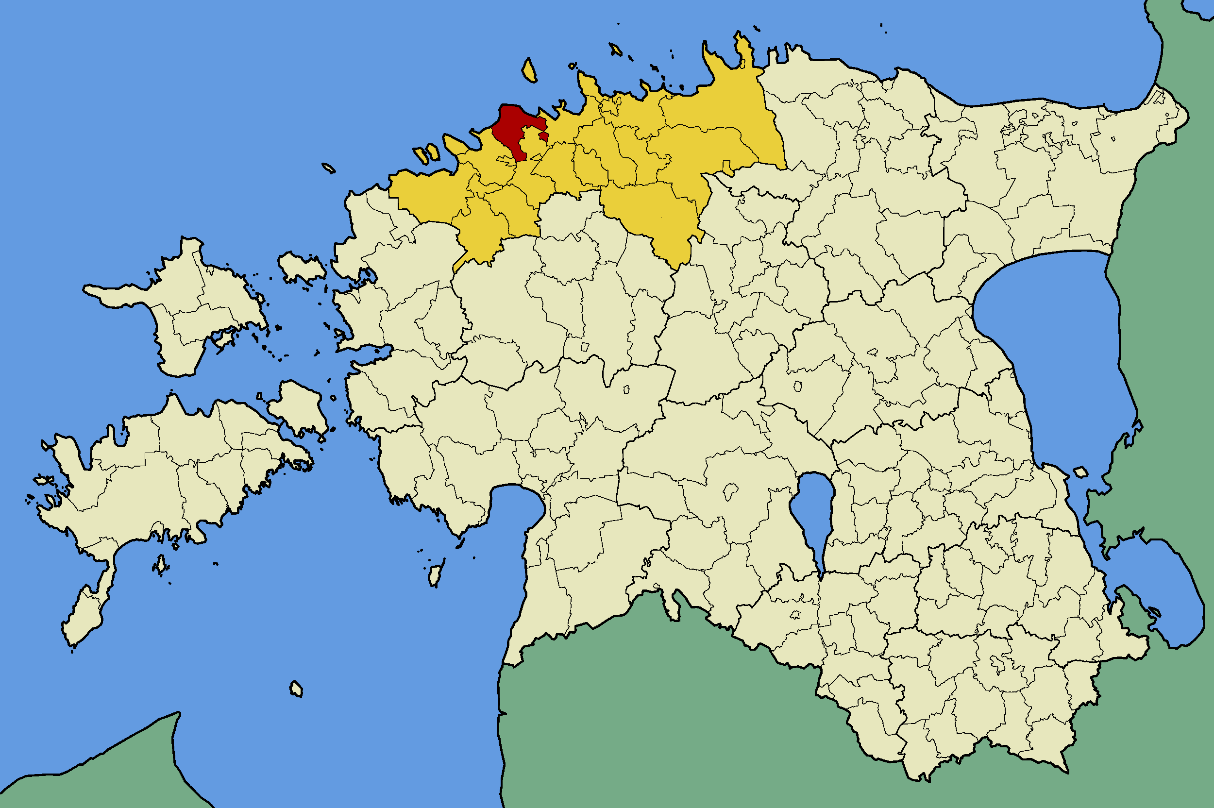 Map of Estonia with borders of municipalities (parishes). Harju county and Harku municipality (parish) emphasized.